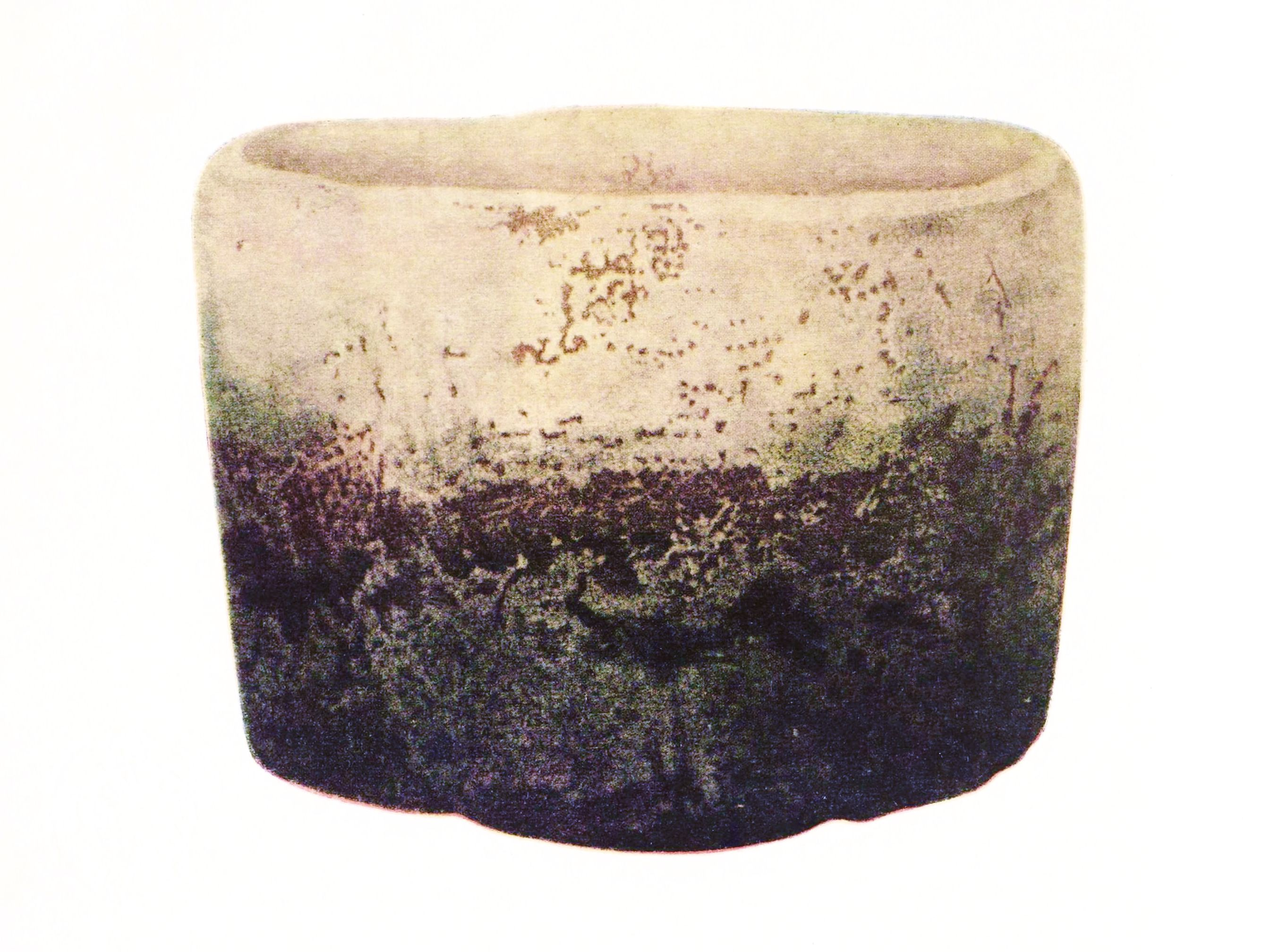 Honami Kōetsu 'Fujisan'.